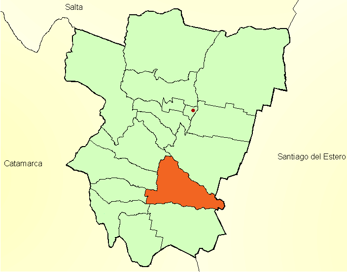 Maps edit of Image:Tucumán province, departments and its capital.png and INDEC of Argentina